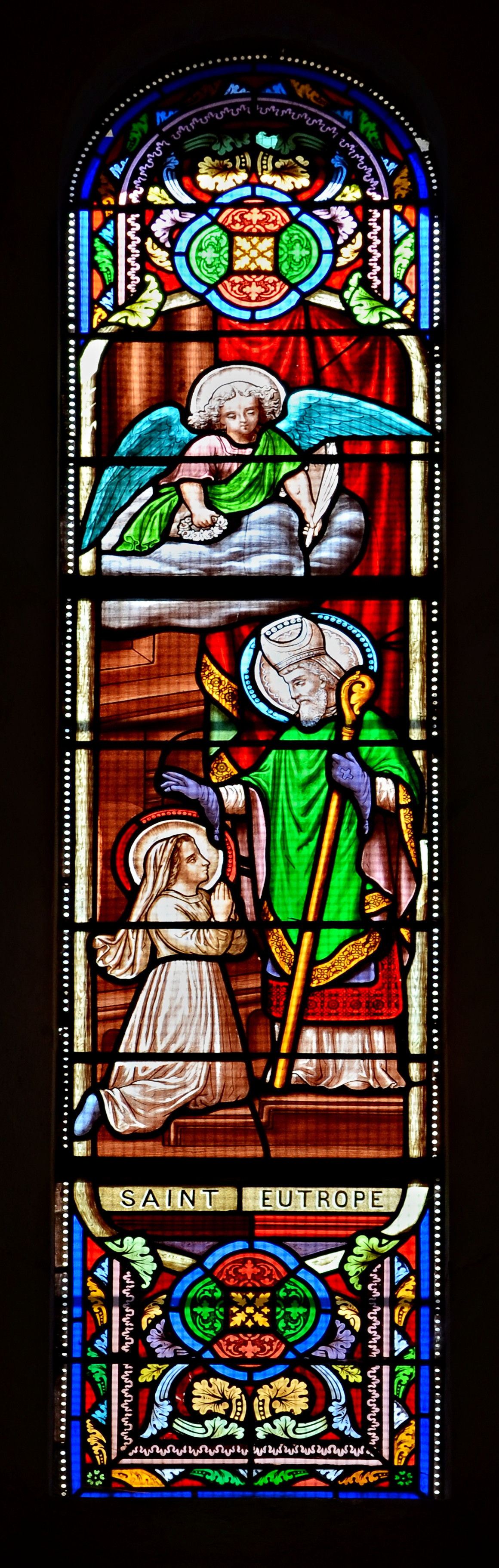 Stained glass window depicting Saint Eutrope, church of Les Mathes, Charente-Maritime, France.